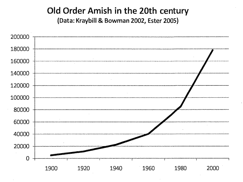 Old Order Amish in the 20th century. The Chart is showing the population growth of the Amish community.